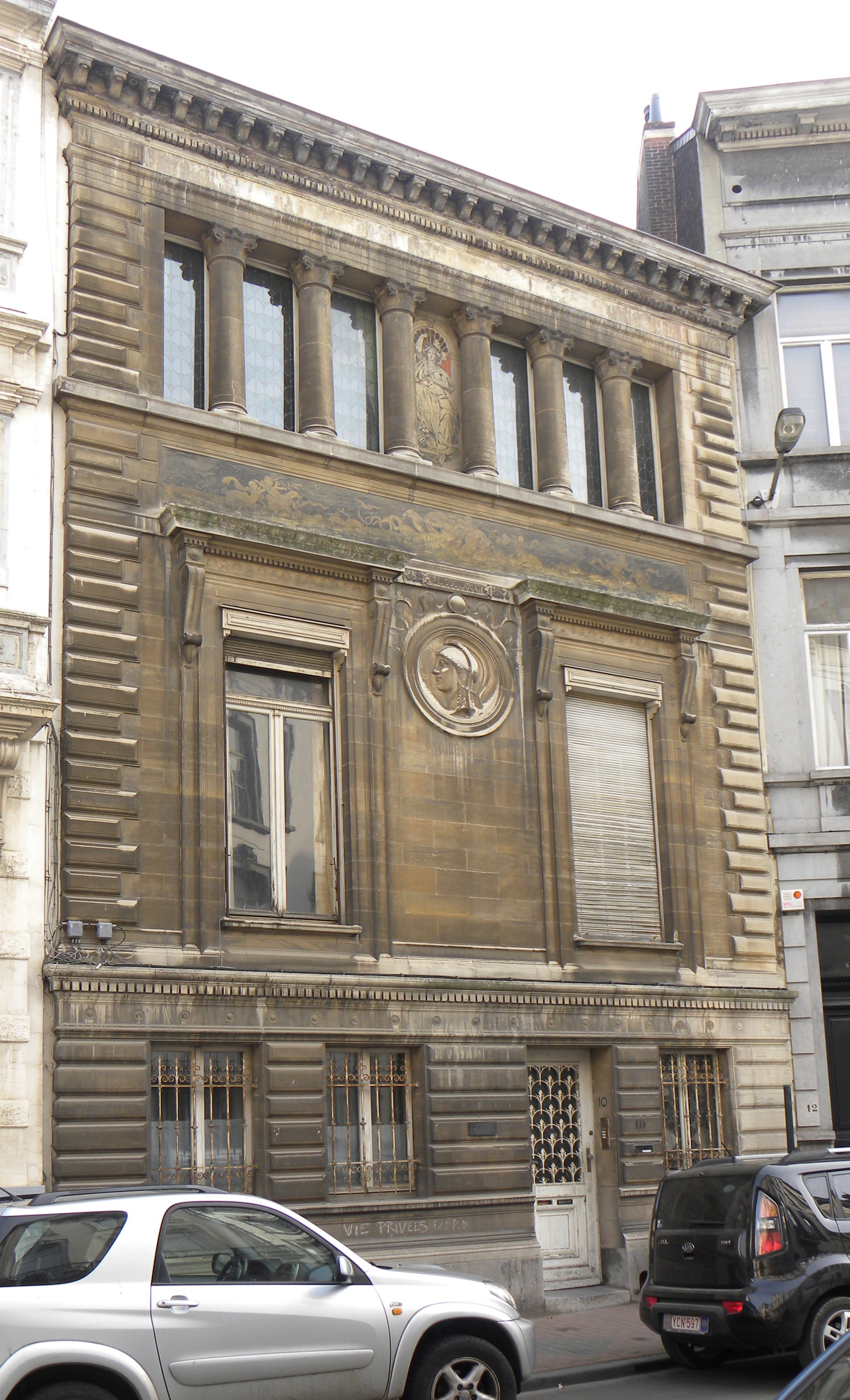 House erected for Eugène Goblet d'Alviella in 1882 by architect Octave Van Rysselberghe. Located rue Faider 10, Saint-Gilles district, (Brussels )